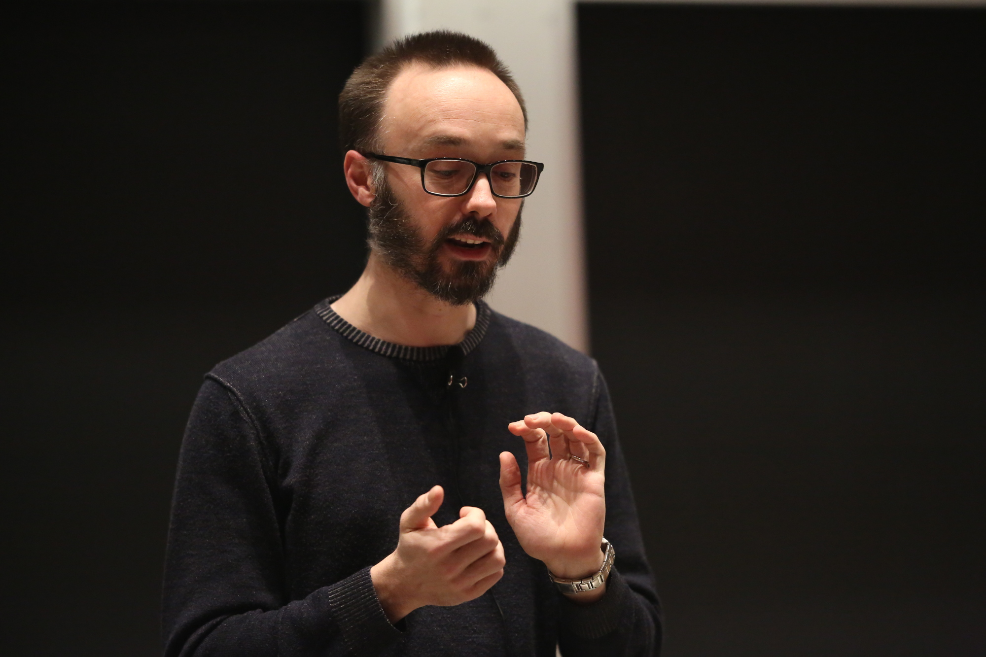 Stefano Zacchiroli at LibrePlanet 2018